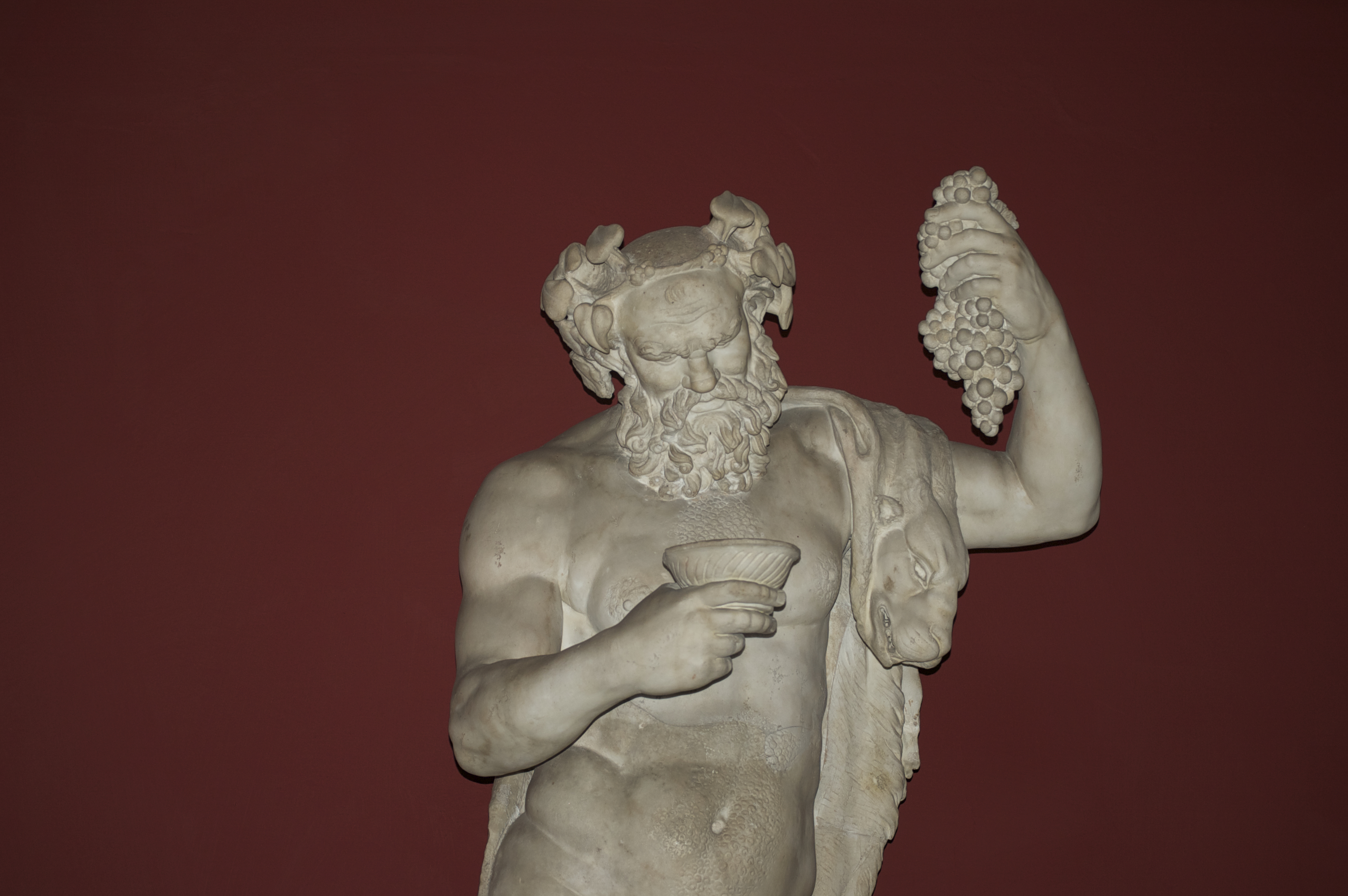 Bacchus (Dionysus), Vatican Museums.